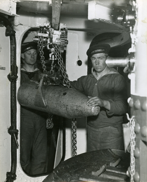 Ammunition for the main 28 cm guns of the Swedish coastal defence ship HMS Drottning Victoria.